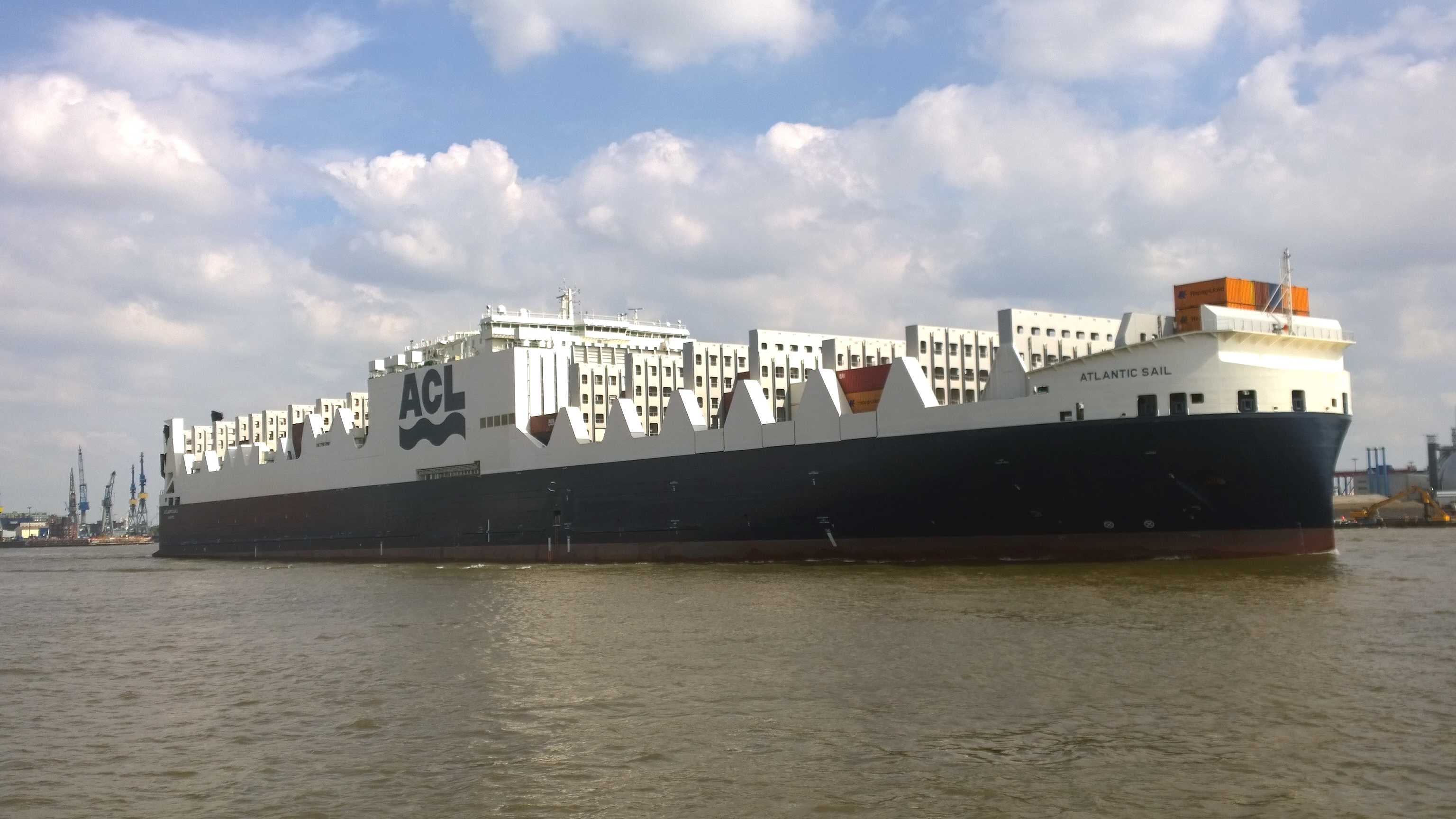 The new ConRo ship Atlantic Sail comes from the Port of Hamburg